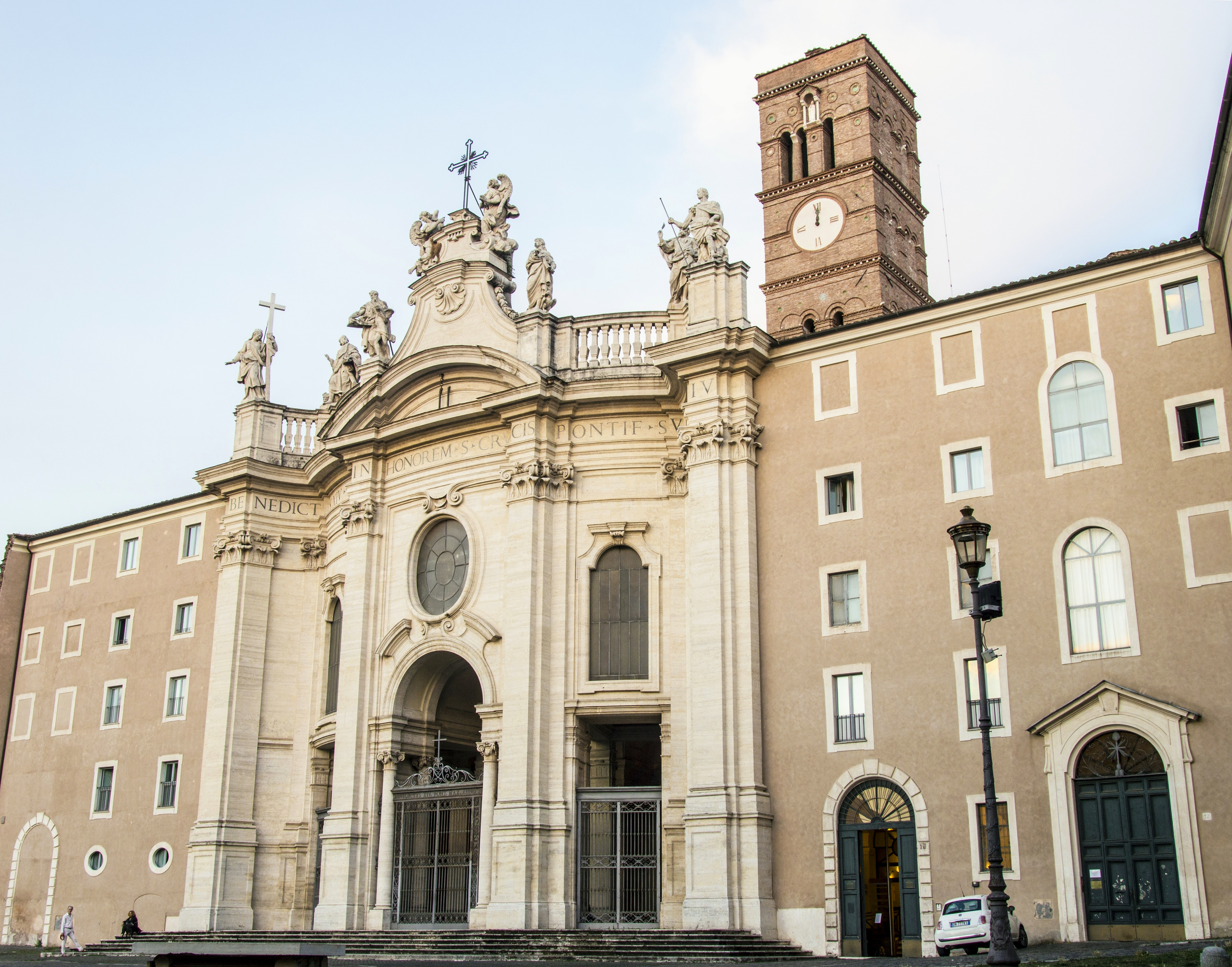 Santa croce di gerusalemme